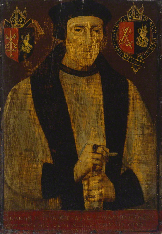 Richard Foxe (d.1528), Bishop of Winchester, formerly Bishop of Exeter. Portrait after Johannes Corvus. Oil on panel, late 16th century. 26 1/4 in. x 18 in. (667 mm x 457 mm). National Portrait Gallery, London, NPG 874. Provenance: bequeathed by Thomas Kerslake, 1891. At left are the arms of the See of Exeter impaling Foxe (Azure, a pelican in her piety or) at right are the arms of the See of Winchester impaling Foxe, the whole circumscribed by the Garter.